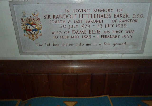 St Mary, Iwerne Courtney: memorial (V)